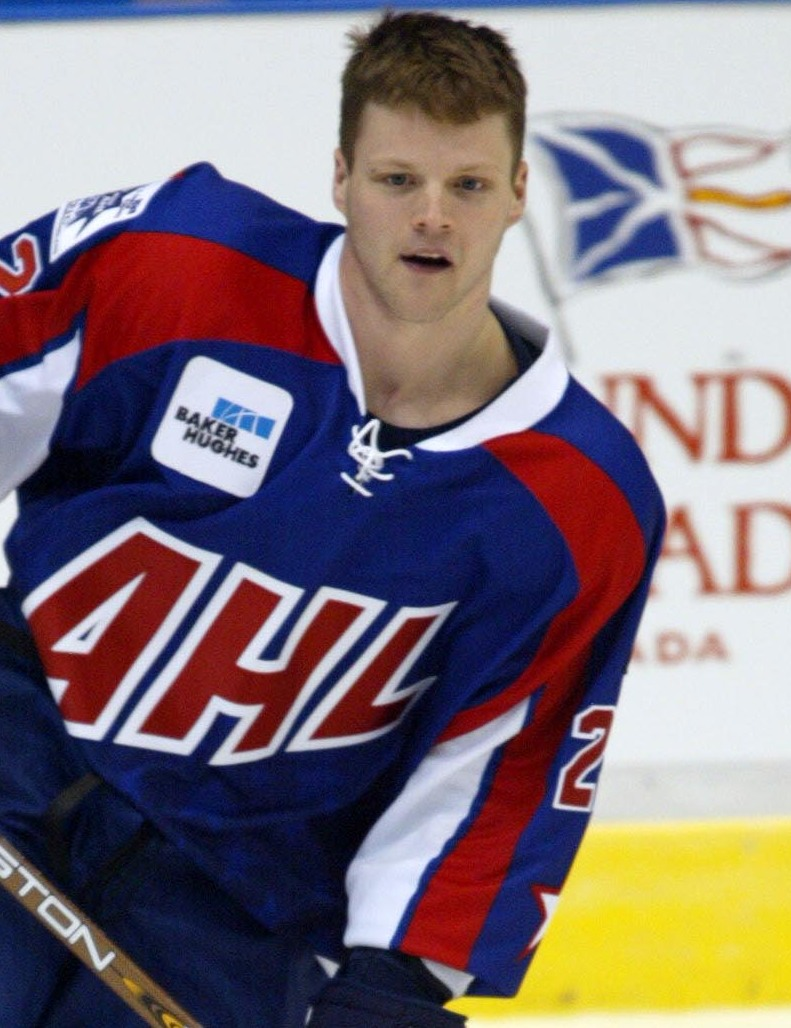 Photo: James Baker/AHL